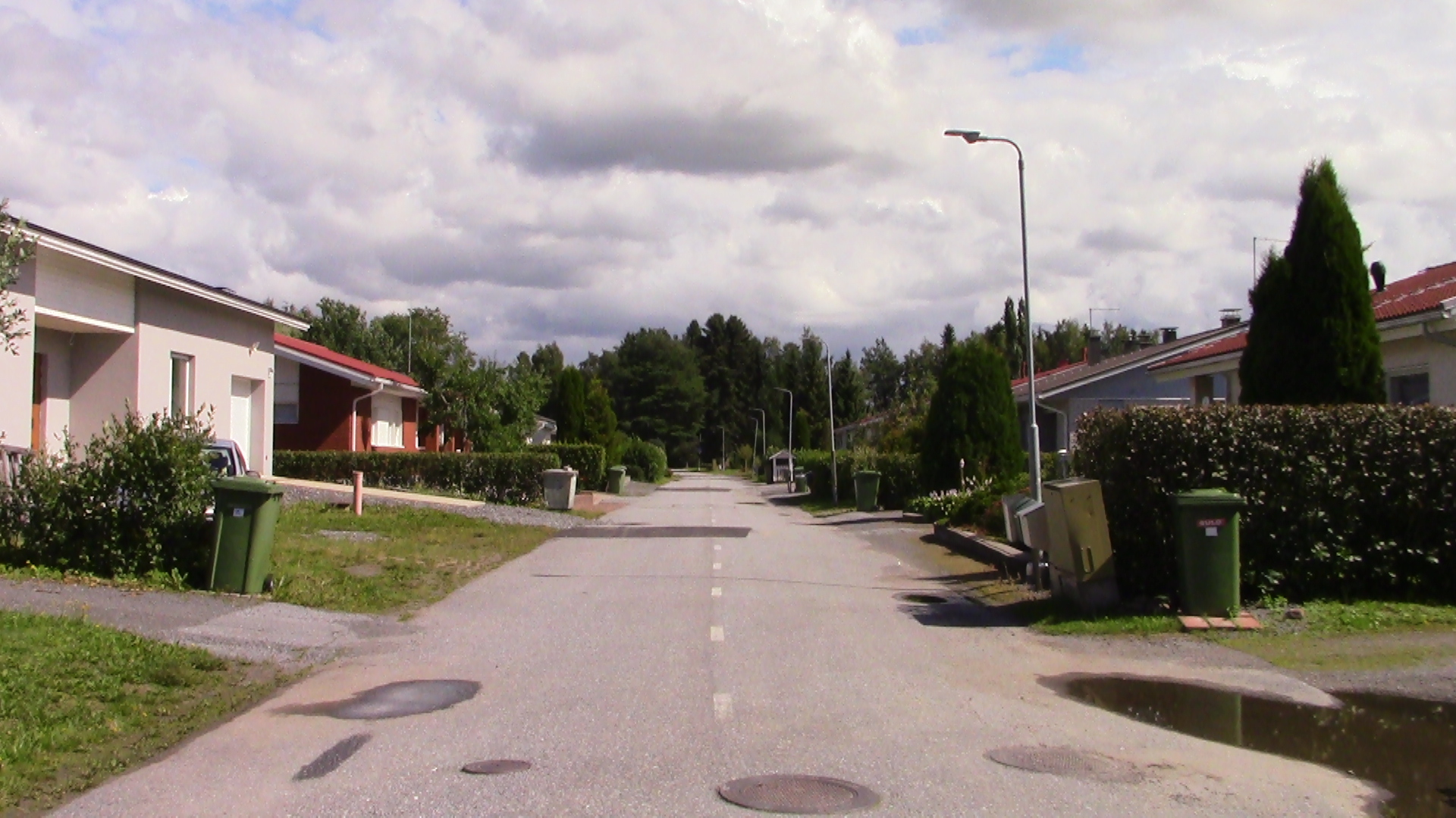 Pälkkitie road at Hyvelänviiki suburb in Pori, Finland.